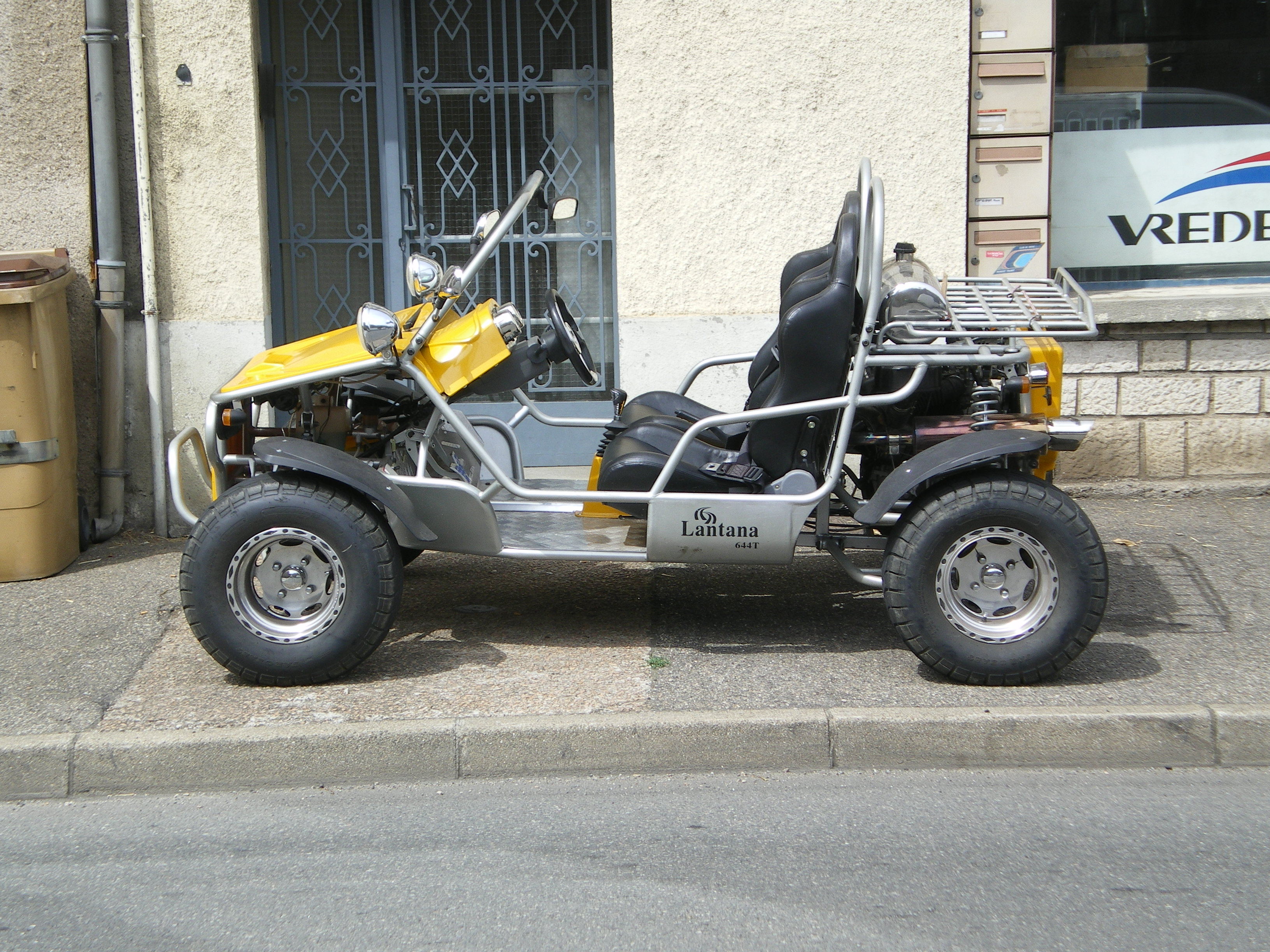 Dune buggy Lantana classic